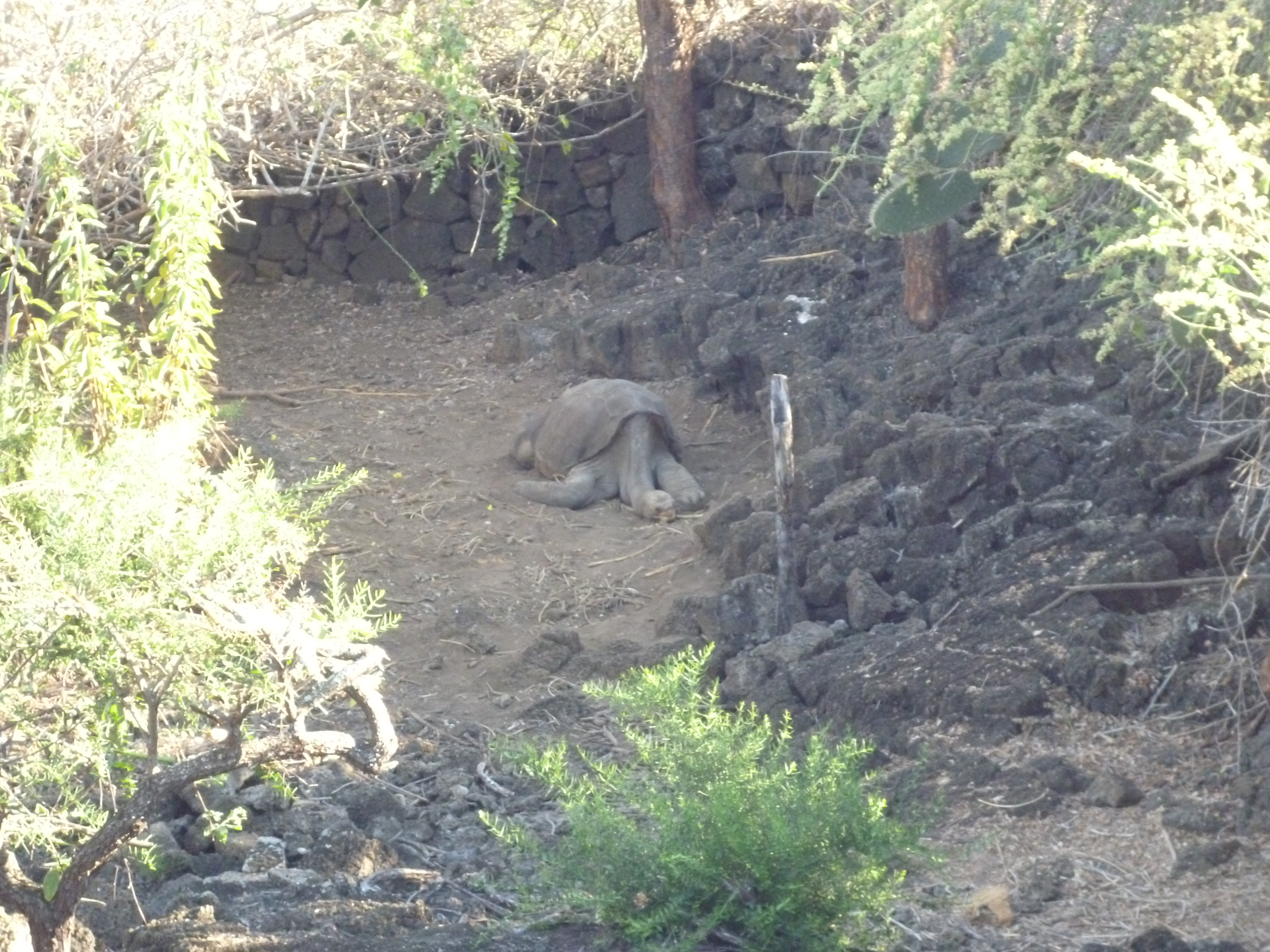 Solitario George Lonesome George Charles Darwin Research Station Galapagos photo by Alvaro Sevilla Design